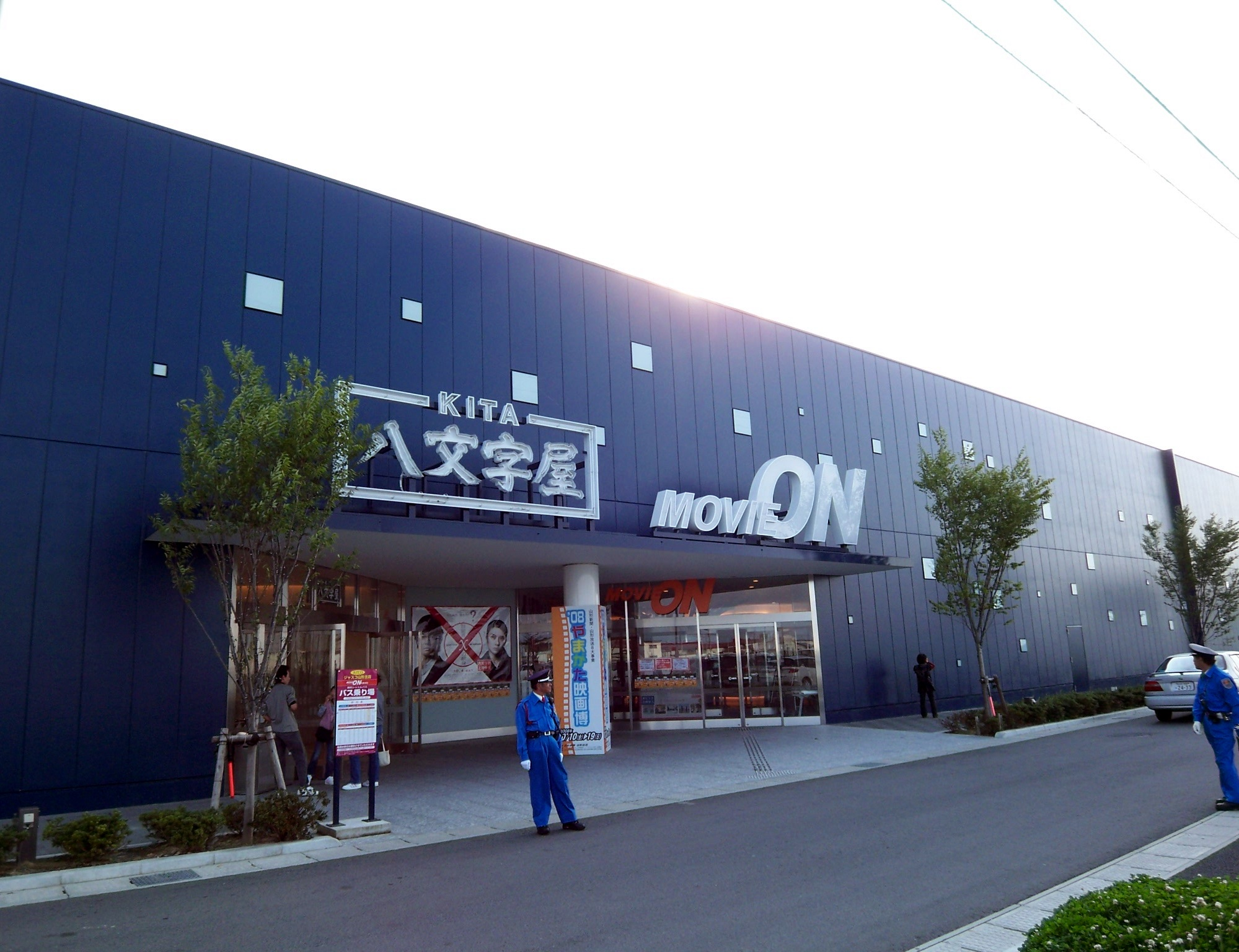 Kita Branch of Hachimonjiya bookstore (first floor) and Movie On cinema theater (first floor and second floor) in Shimakita, Yamagata, Yamagata, Japan.